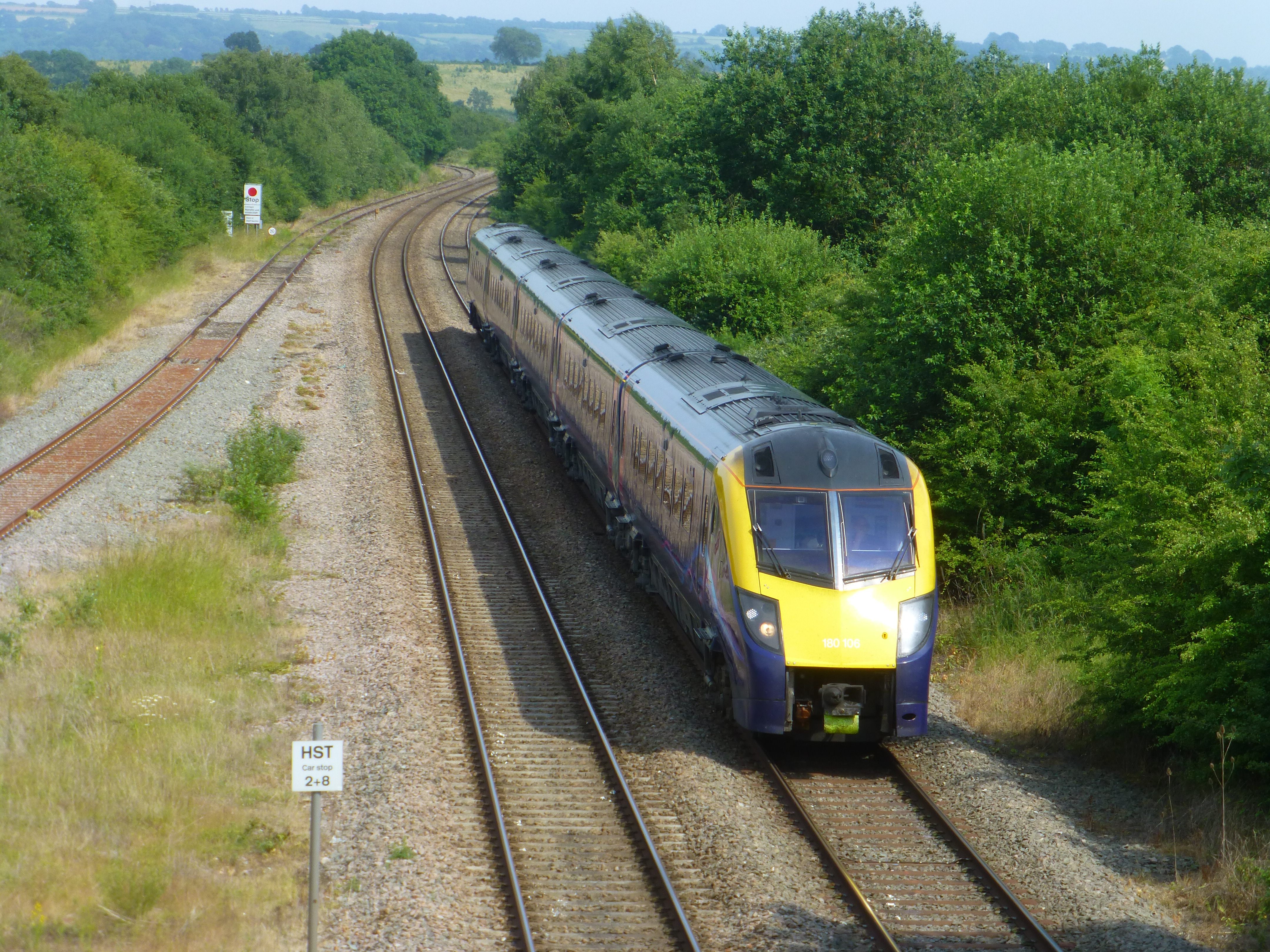 Northbound First Great Western Class 180 106 train approaches Honeybourne railway station, as seen from the adjacent road bridge. On the left is seen the route to Long Marston